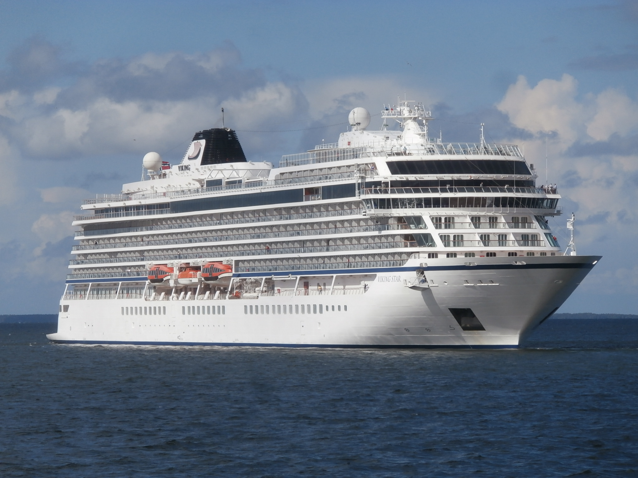 Viking Star departing Tallinn 2 August 2016